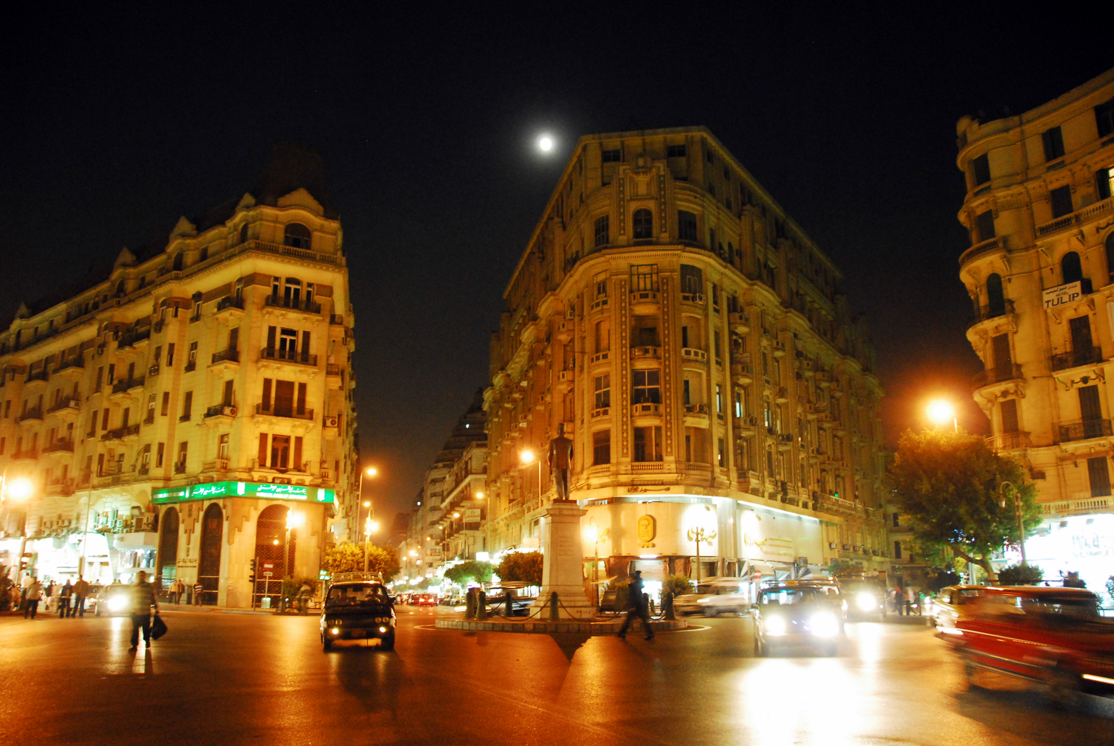 Midan Talaat Harb at night , Location: Cairo